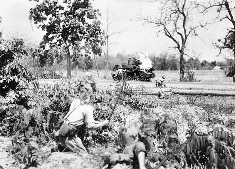 IJA soldiers attacking a British M3 Stuart light tank with Molotov cocktails, Burma 1942